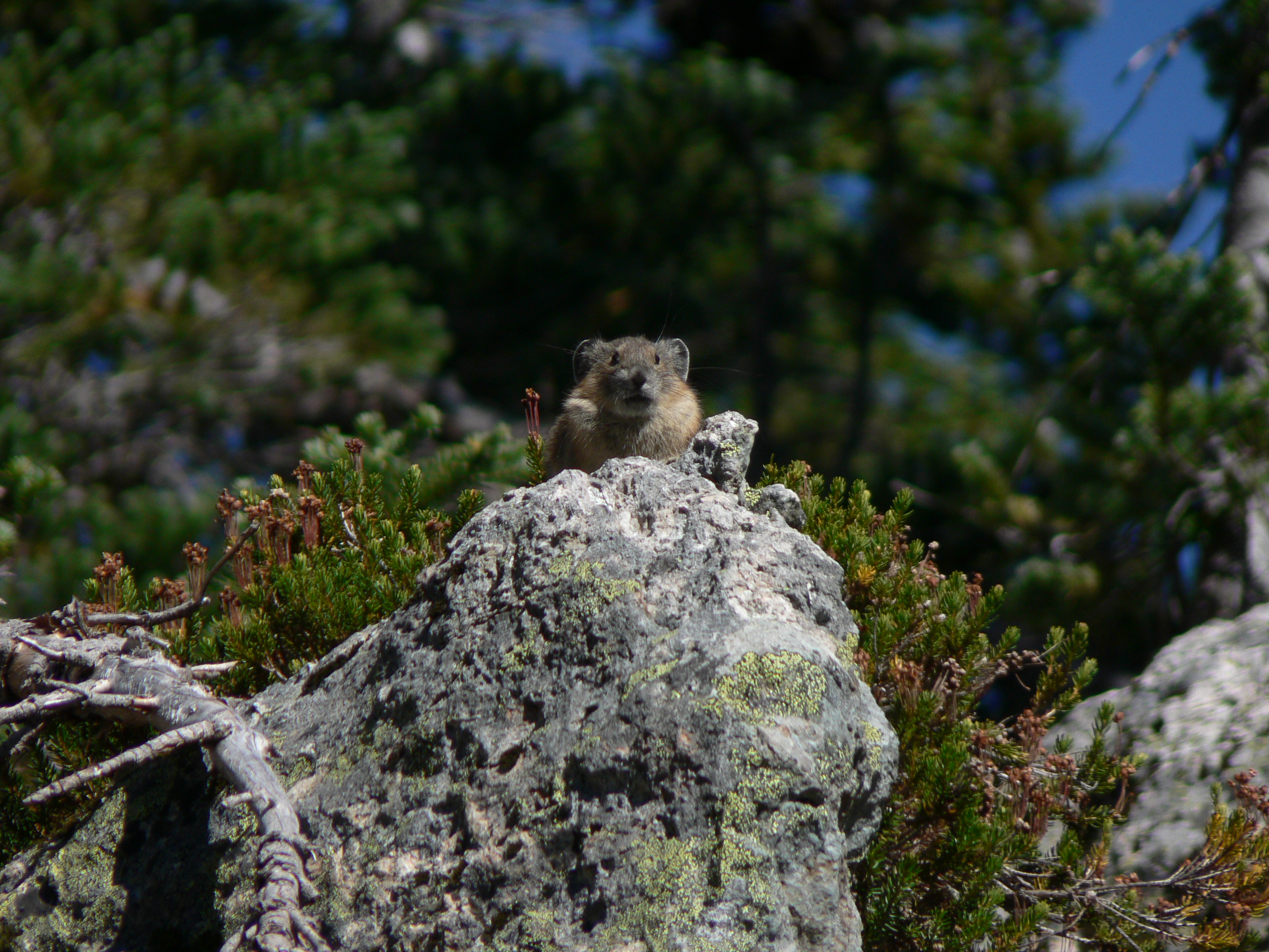 American Pika